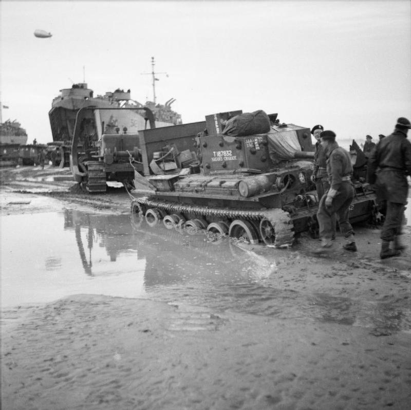 The British Army in Normandy 1944 A bulldozer being used to recover a Cromwell tank that became bogged down on the beach, 14 June 1944.